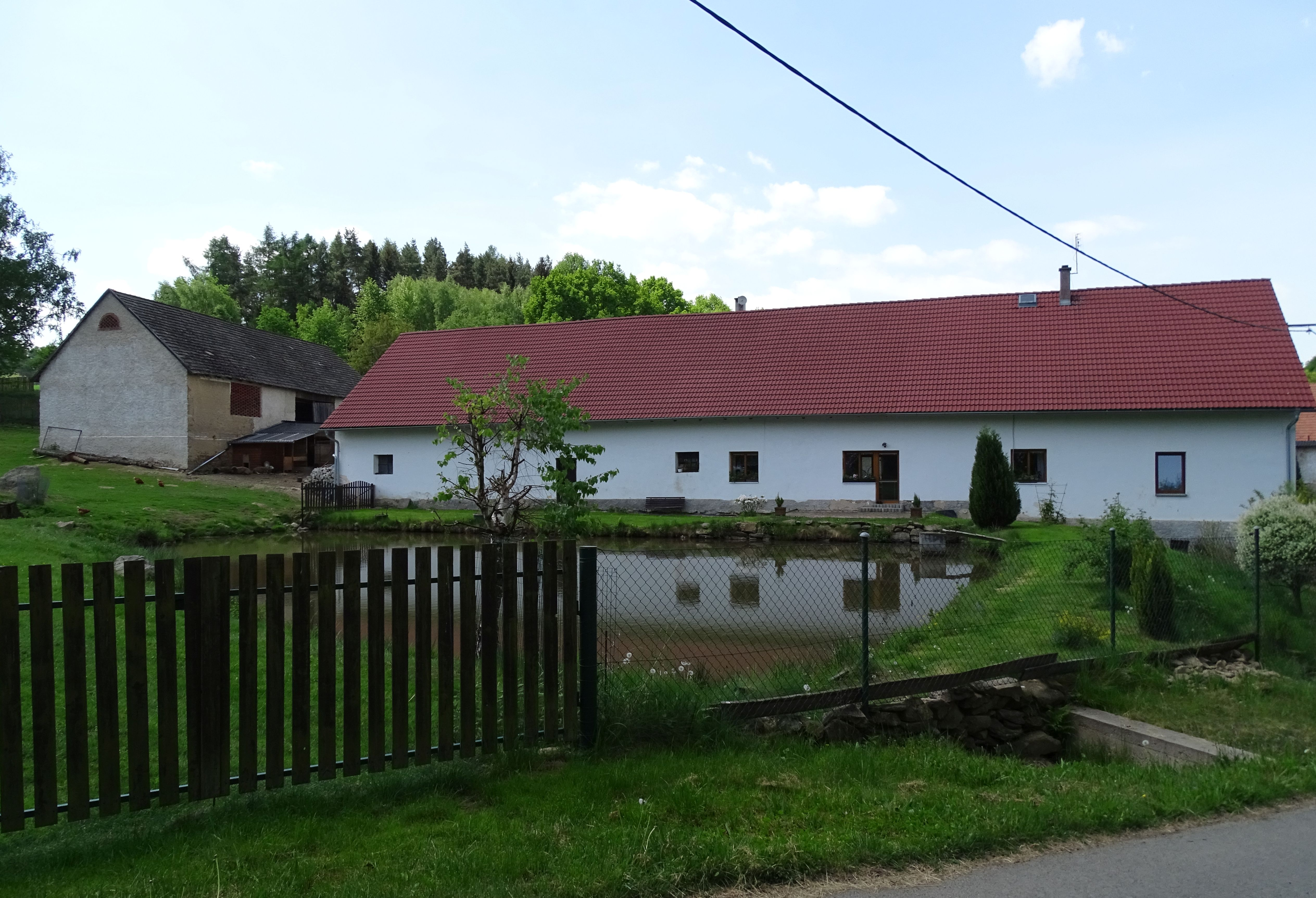 Neveklov-Zárybnice, Benešov District, Central Bohemian Region, Czech Republic. House no. 1.